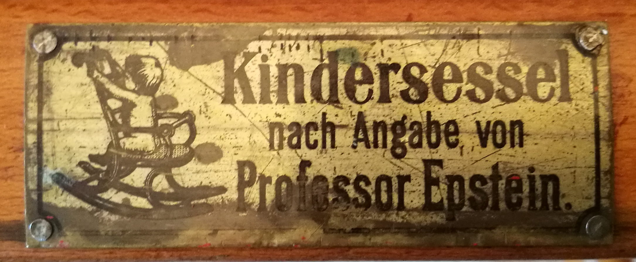 Rocking chair for Toddlers, Size 2, Thonet, designed by Prof. Alois Epstein, Manufacturers Sign